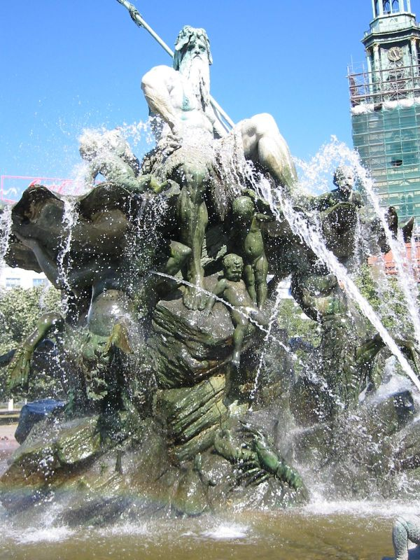 Neptun Fountain in Berlin-Mitte